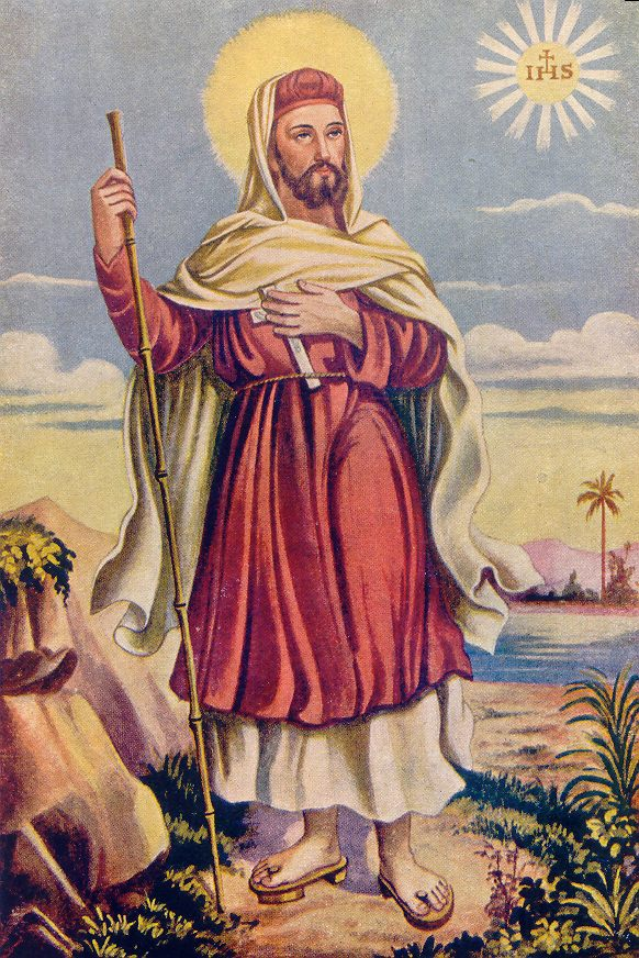 Juande Britto, Jesuit missionnay and pandarasamy in South India (XVIIth century. A traditional picture